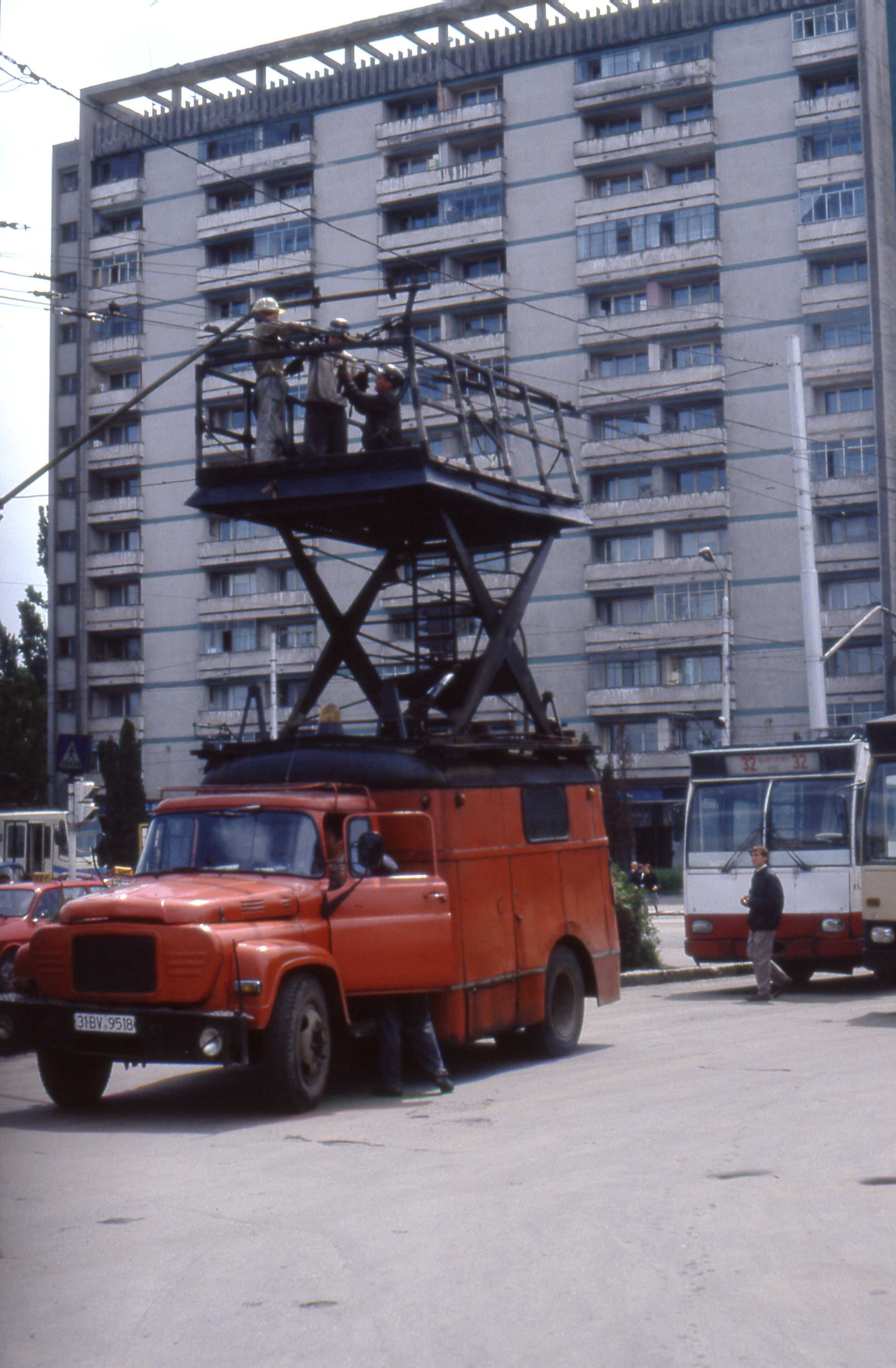 Emergency repairs to the trolleybus overhead wires from the mobile tower platform.